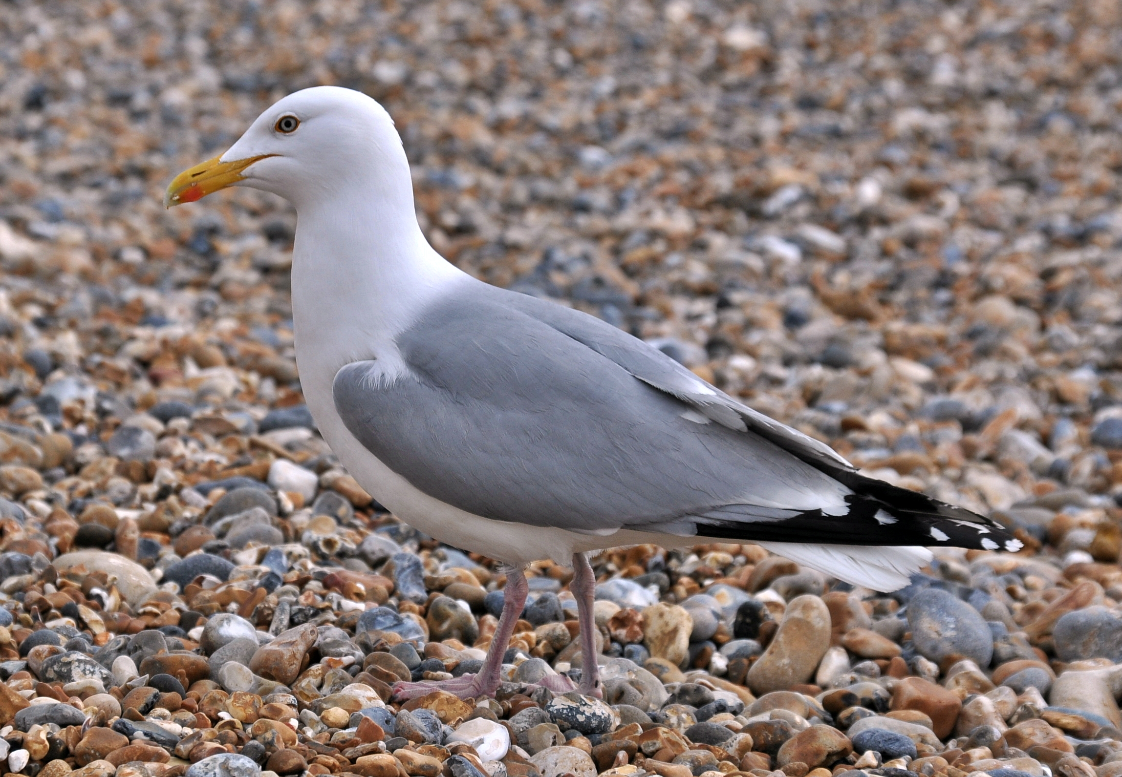 Herring Gull (Larus argentatus), Brighton, England